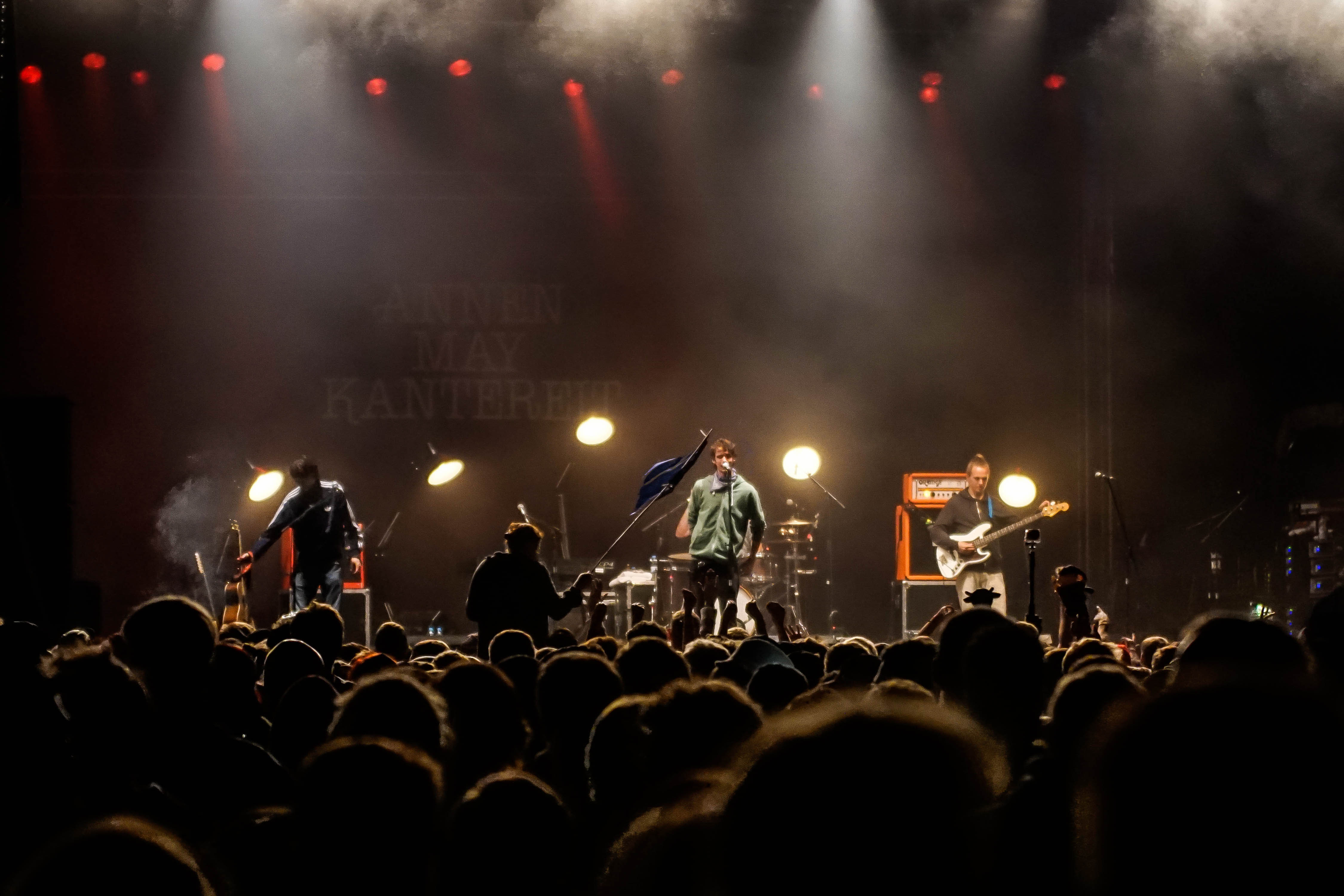 Annenmaykantereit at Rocken am Brocken 2015, Elend, Germany